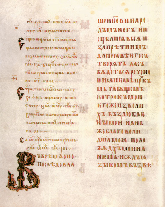 First known russian manuscript Ostromir Gospel. It was created by deacon Gregory for his patron, Posadnik Ostromir of Novgorod, in 1056 or 1057. Shown List 245b.